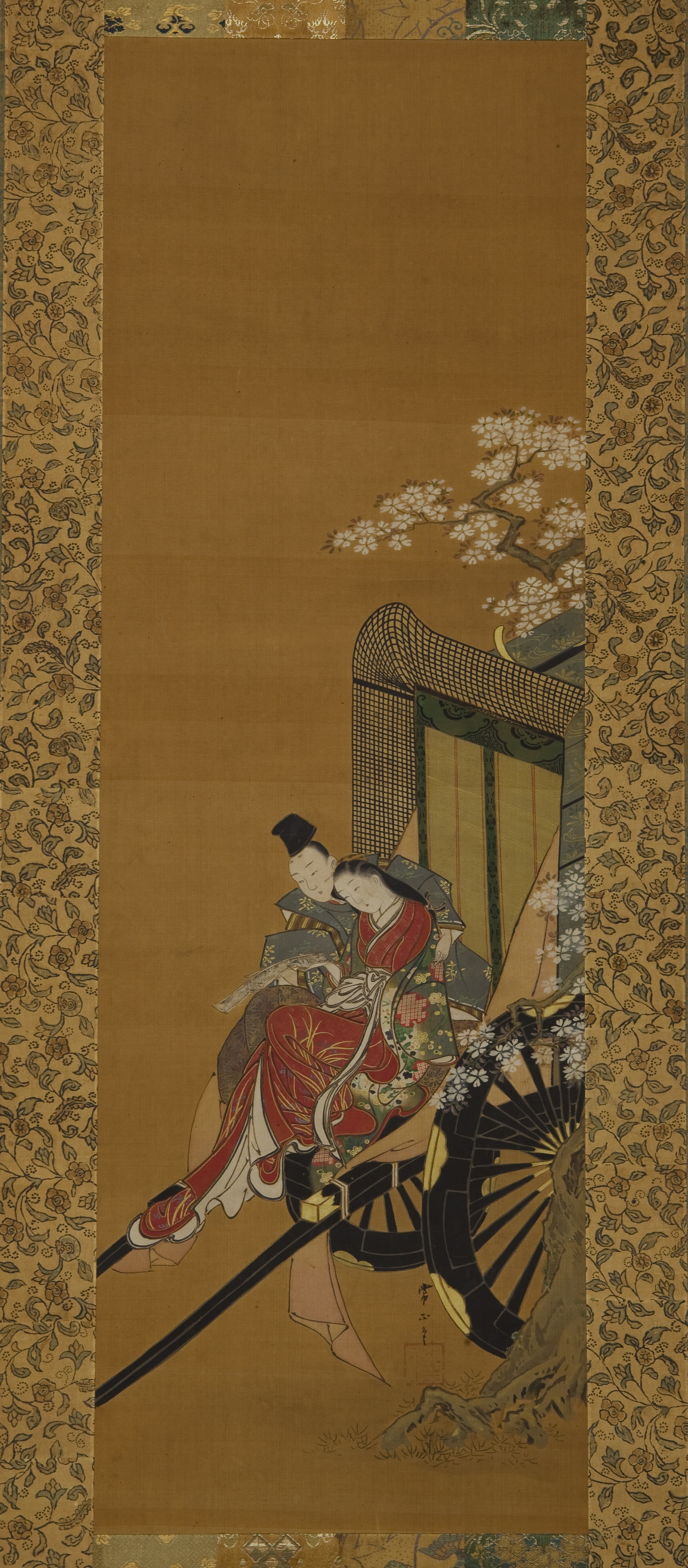 Ukiyo-e painting, size: 150.5 x 38.5 cm